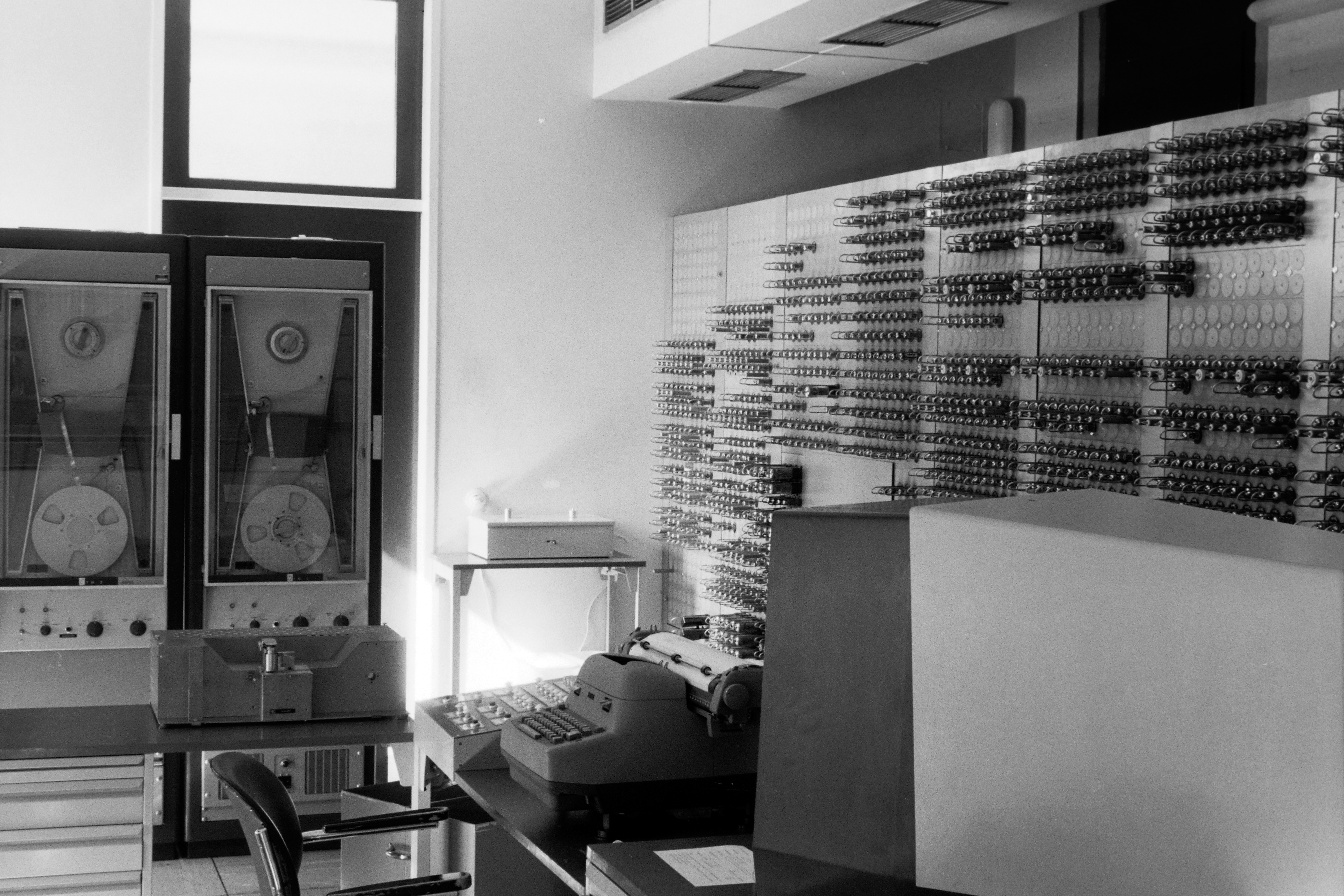 G3 Computer at the Max Planck Institute for Physics, Munich 1966, with console typewriter in the centre, monitor screen on the right and magnetic tape devices as well as punched tape reader on the left